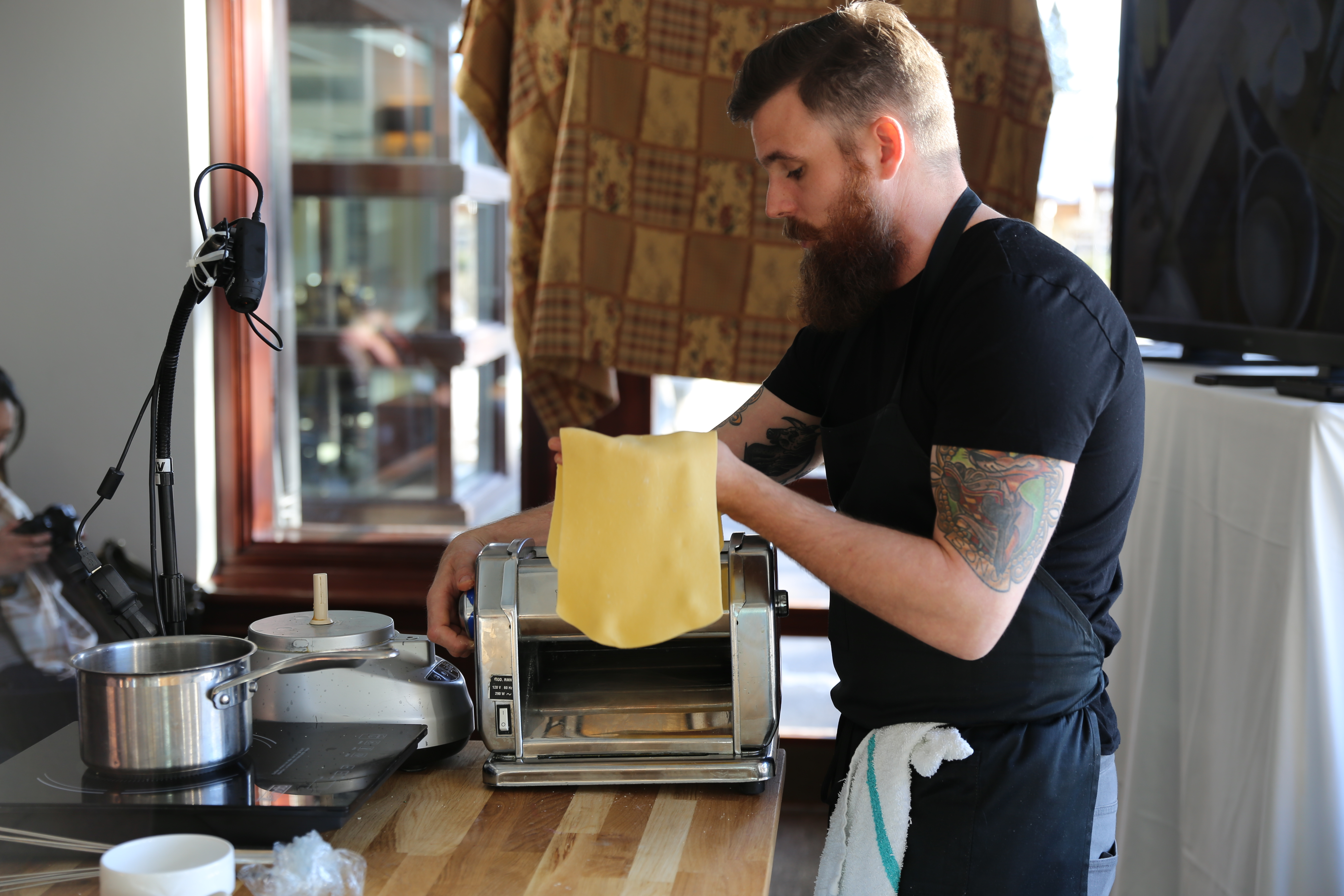 Christmas in November